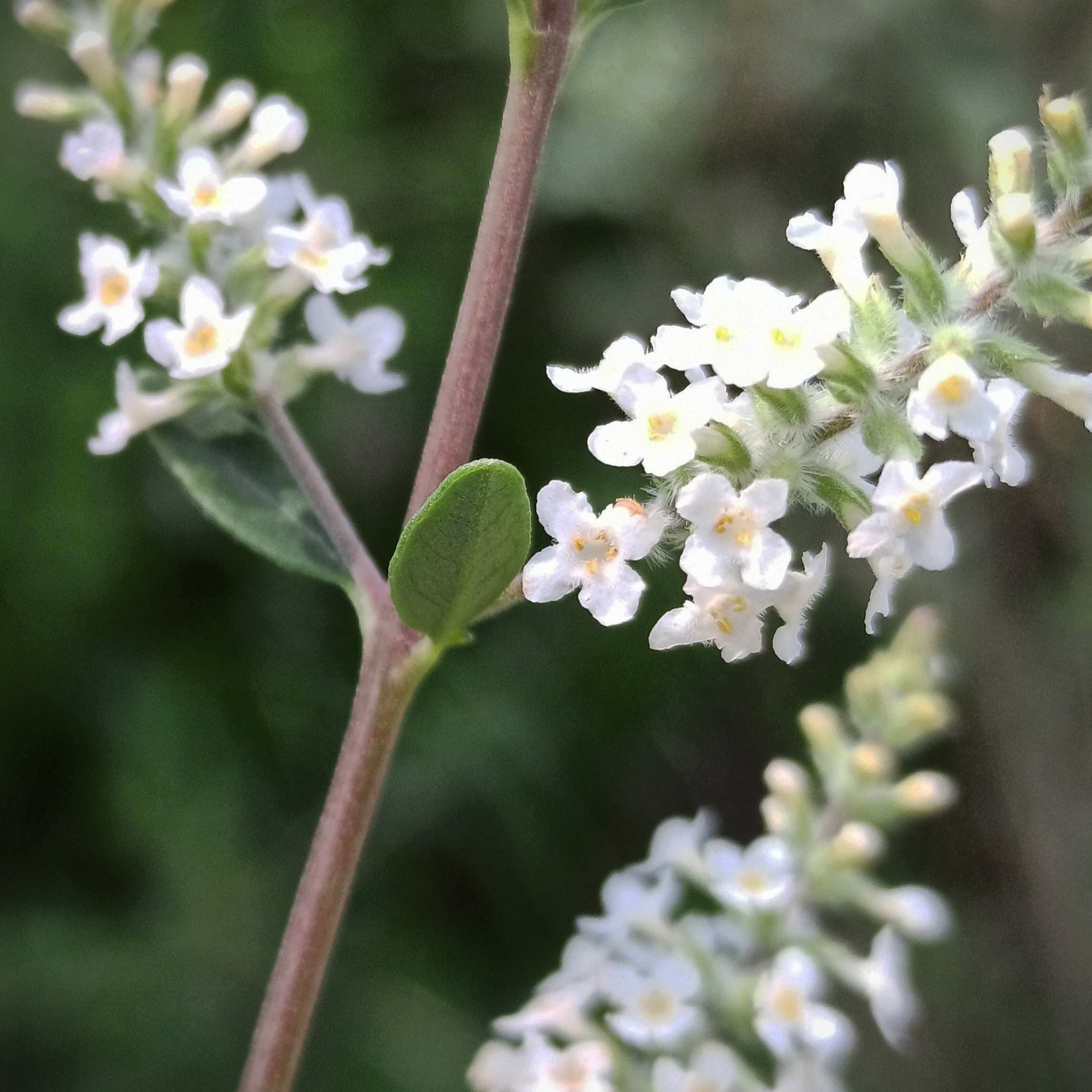 Aloysia gratissima (Family: Verbenaceae).